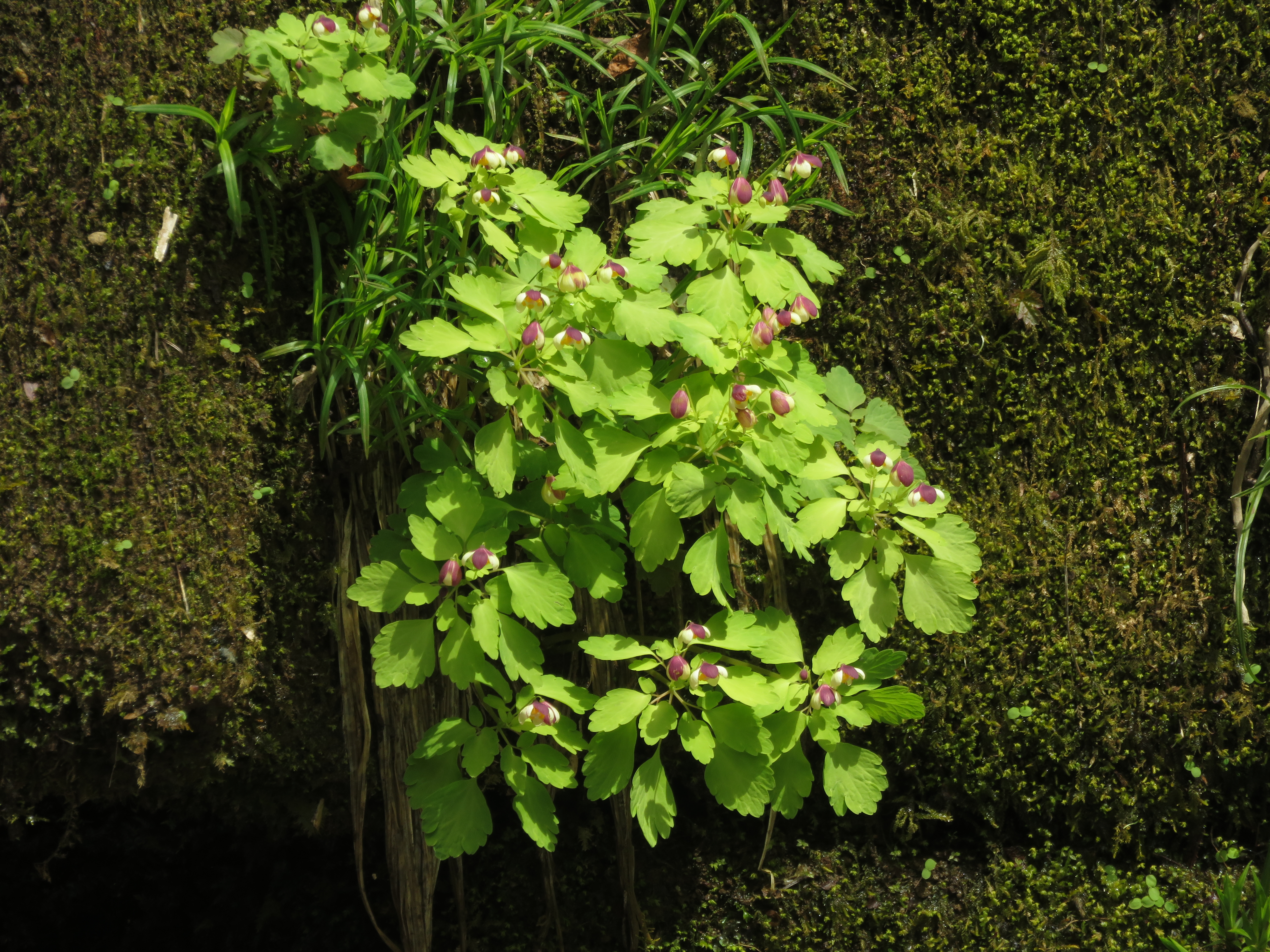 Dichocarpum nipponicum, Aizu area, Fukushima pref., Japan